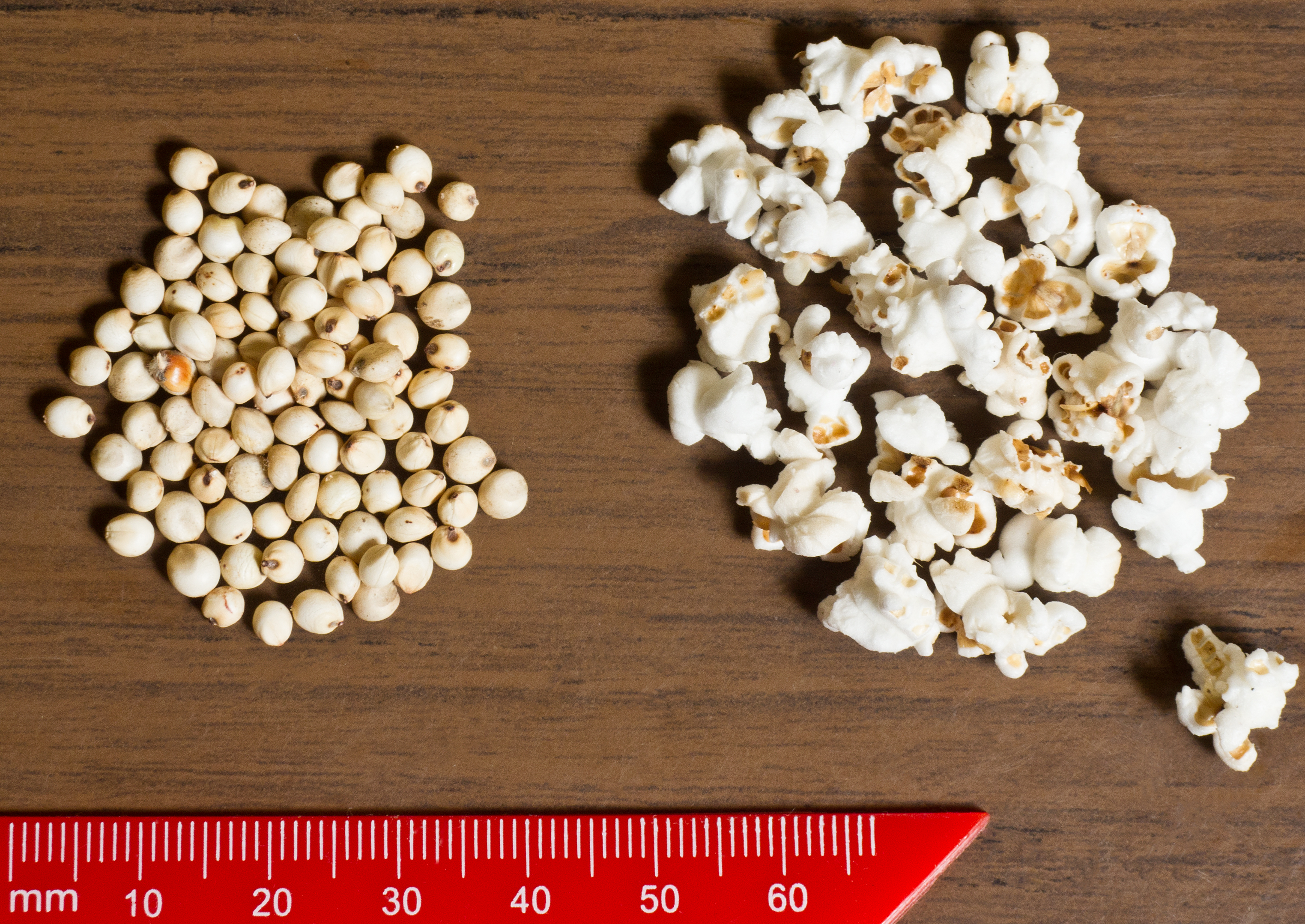 Sorghum seeds, left, and popped sorghum seeds, right.